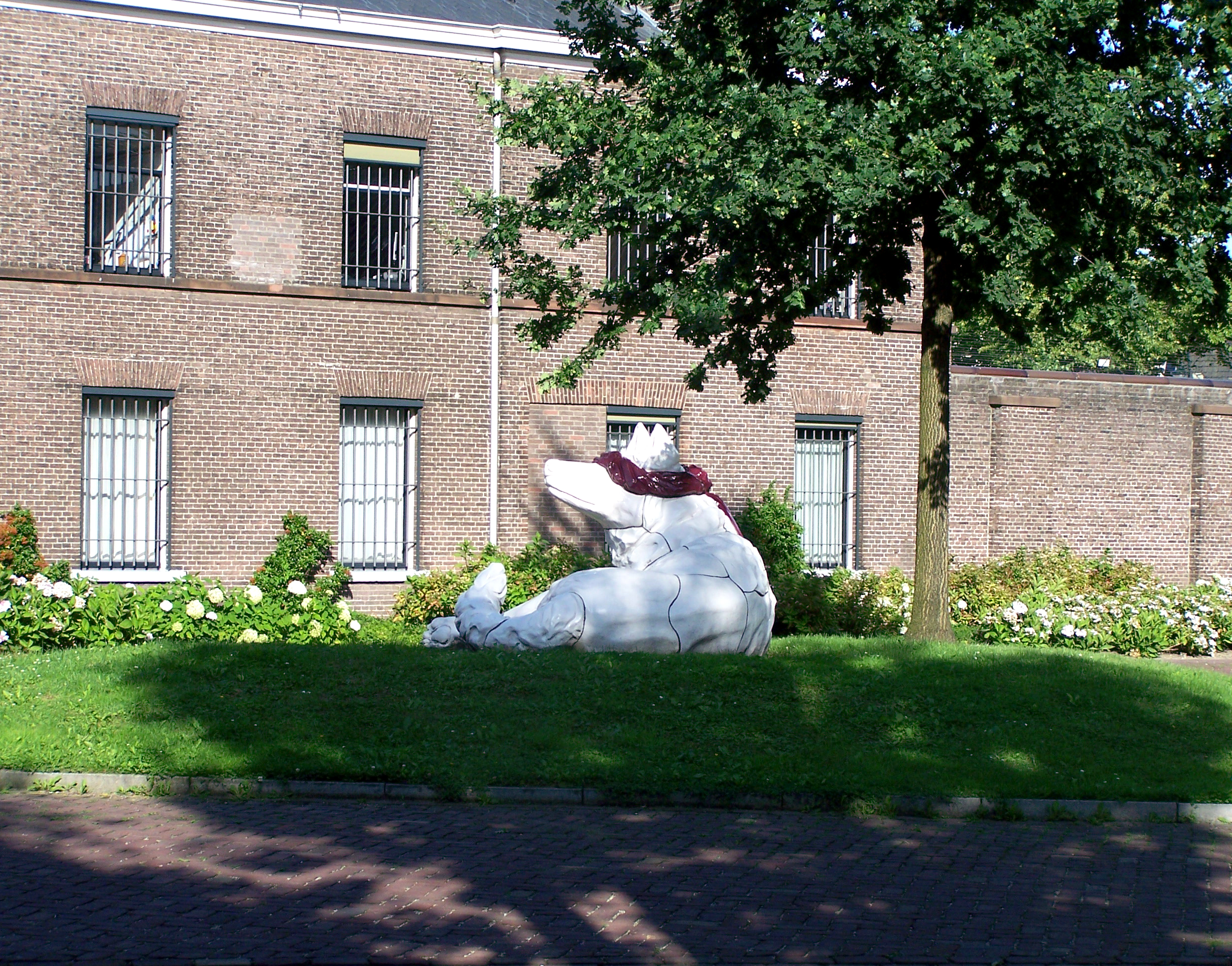 Sculpture "De Wolvin en de eik" (The Wolf and the oak) by Suzanne Willems in 2001. Placed at the Wolvenplein in Utrecht.